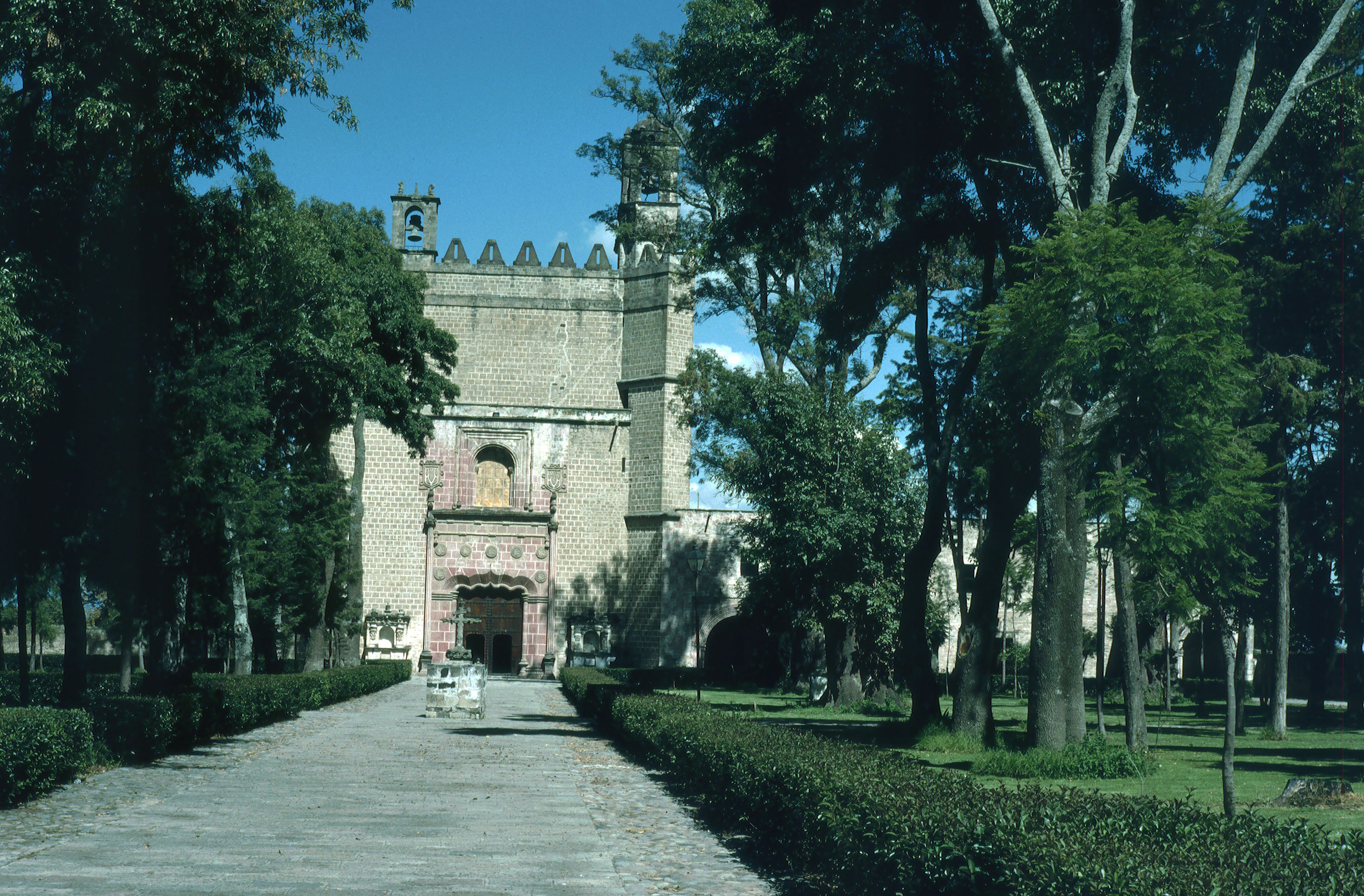 Huejotzingo, Puebla, Mexico: former convent of the franciscans.